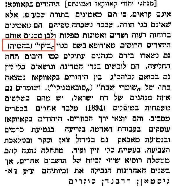 Otzar Yisroel Vol 9. p.77